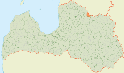 Location of Zvārtava Parish in Latvia